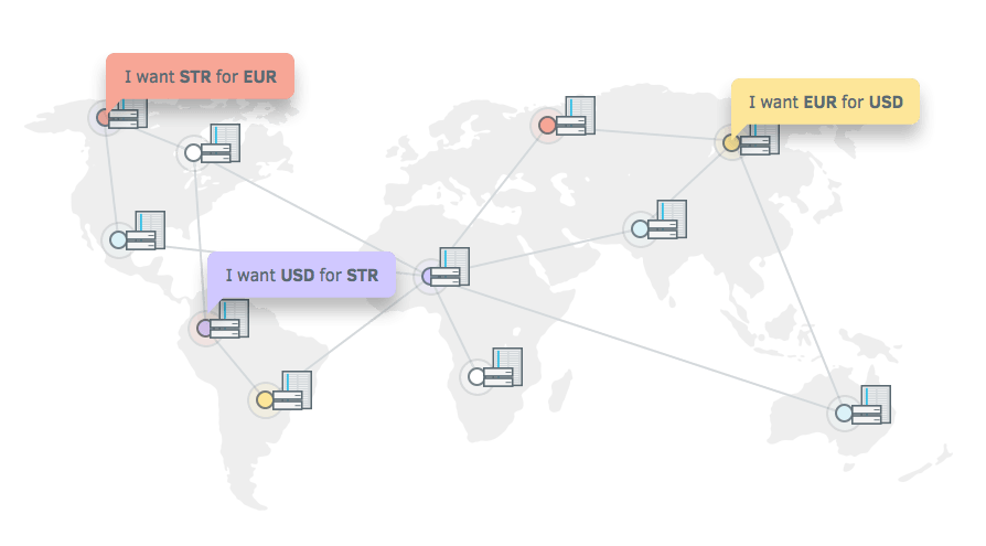 Câmbio distribuído